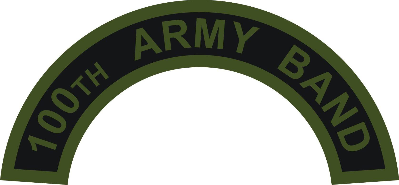 100th Army Band unit tab